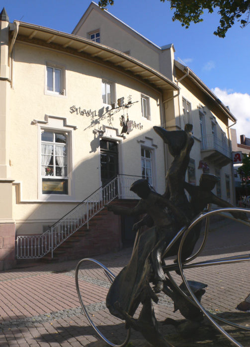 The first "gas station" in the world - an Wiesloch apothecary in which Bertha Benz, the wife of Carl Benz, bought fuel (Benzine) on her historic trip from Mannheim to Pforzheim